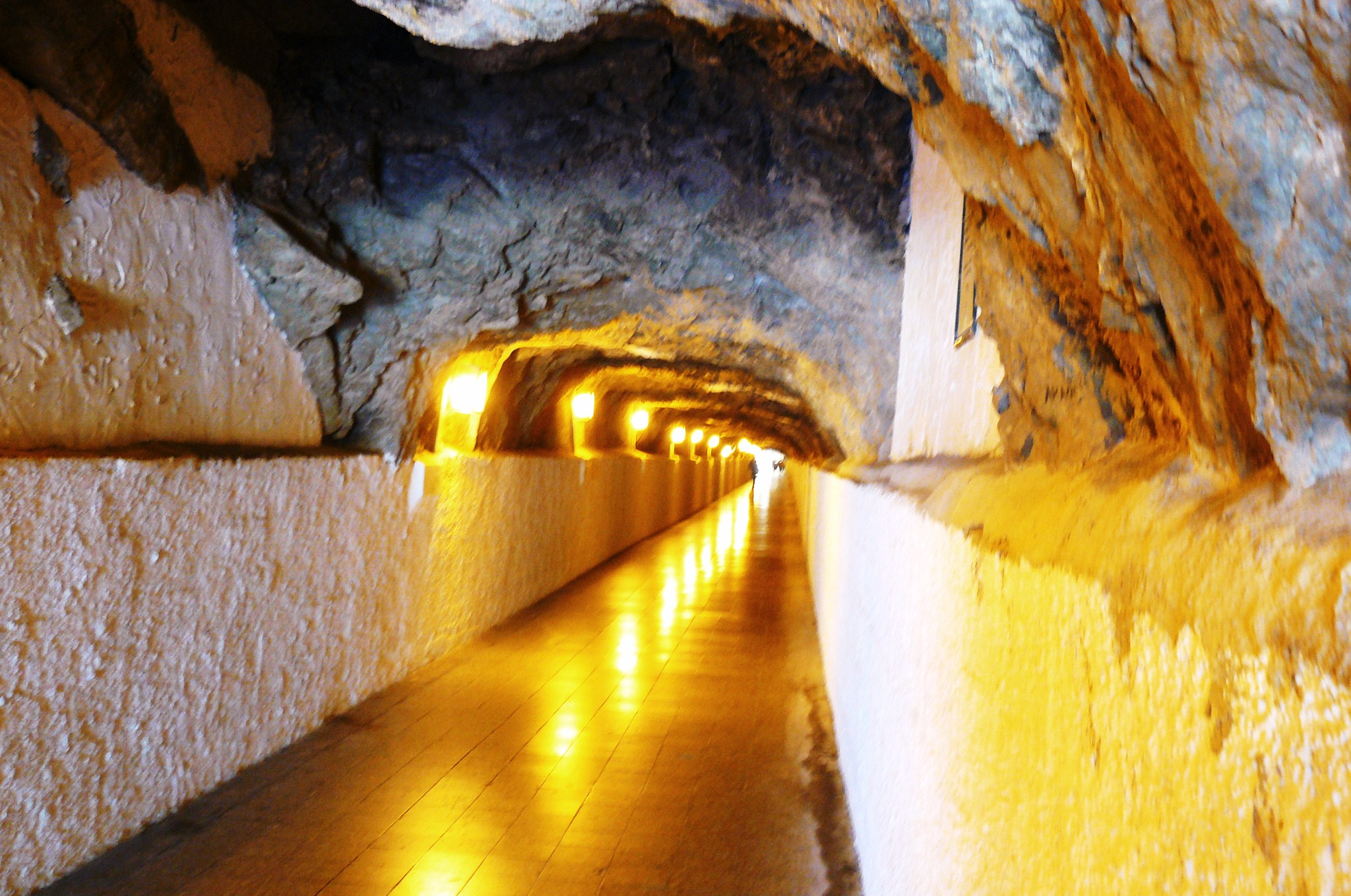 Bunker in Denia, Spain. 1937.